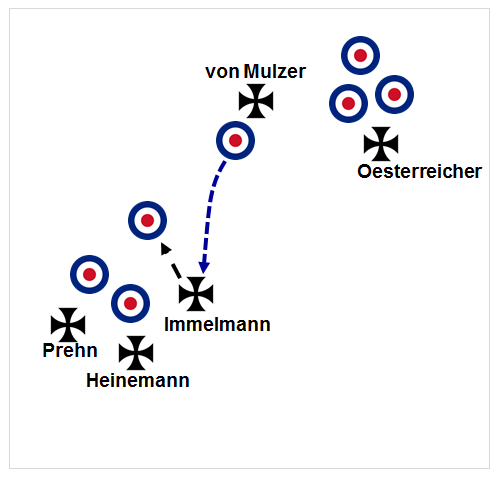 Immelmann last dogfight on 18 June 1916 Page 2